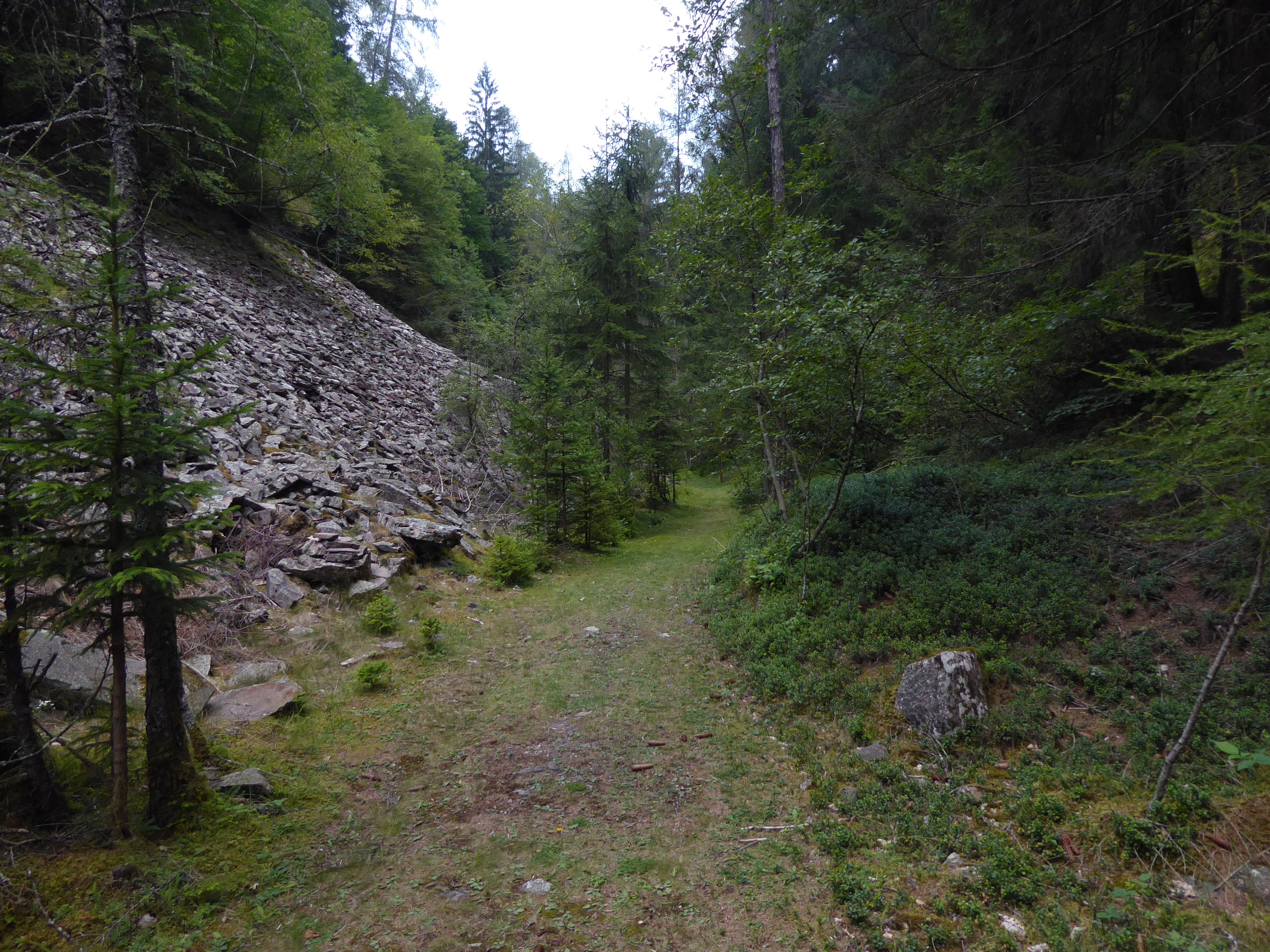 The "Val Fredda" (="cold valley") in the municipality of Lona-Lases (Trentino, Italy)